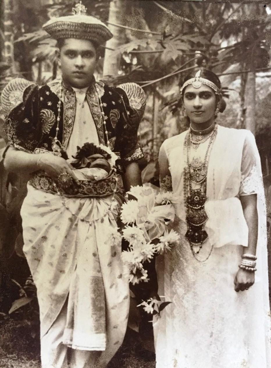 Photograph of Nissanka & Nita Wijeyeratne's Wedding Photo